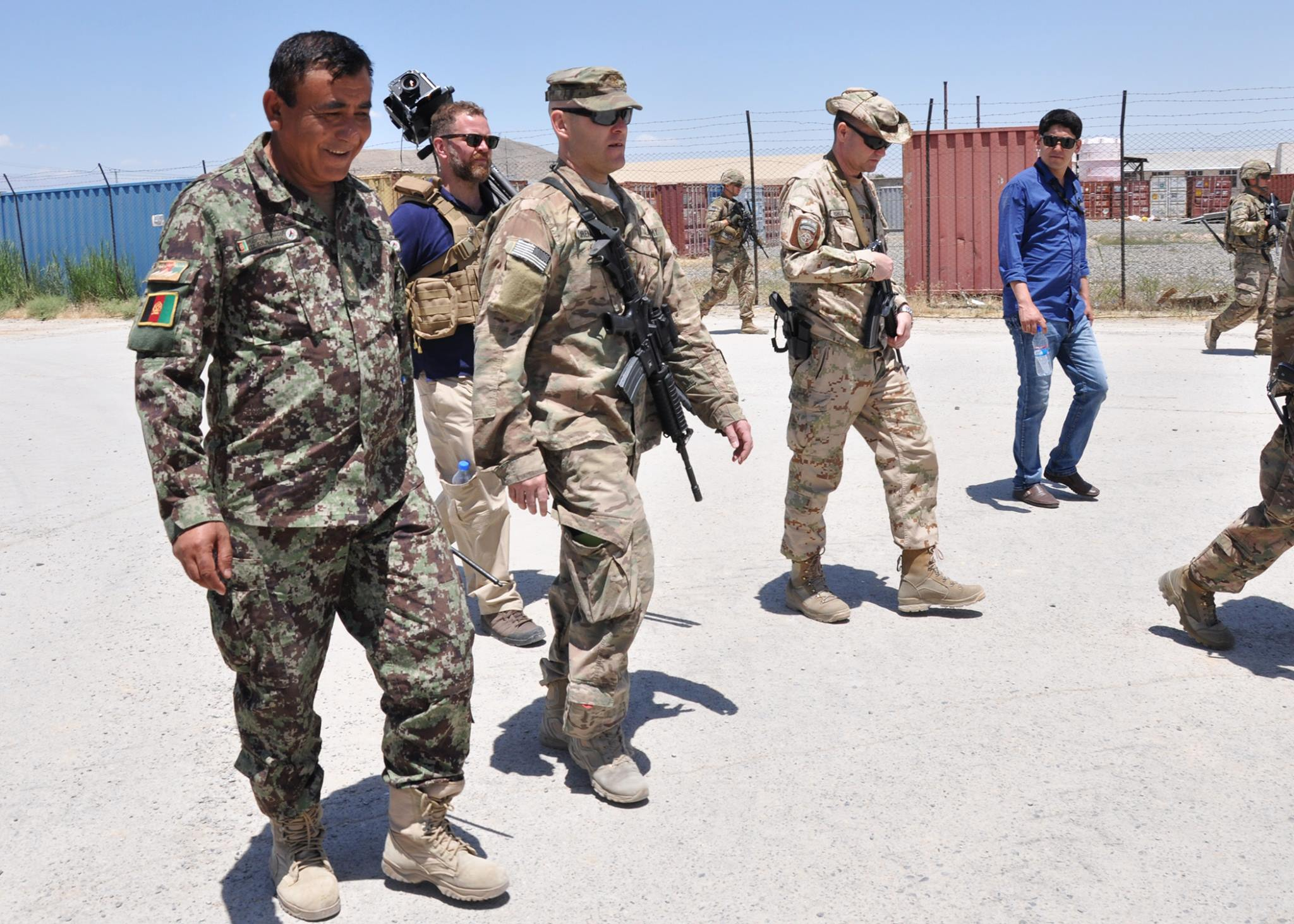 NATO troops meet with the Afghan National Army in Kabul, Afghanistan, accompanied by photographer Jason Koxvold